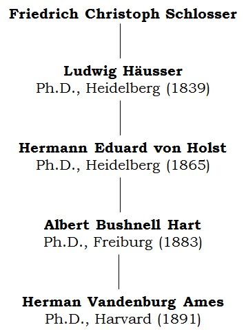 An academic pedigree of Herman Vandenburg Ames.